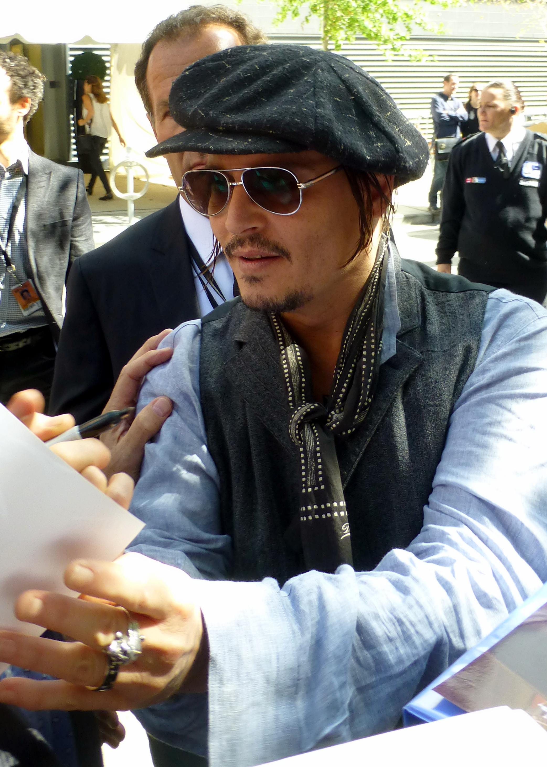 Johnny Depp at the press conference of Black Mass, 2015 Toronto Film Festival